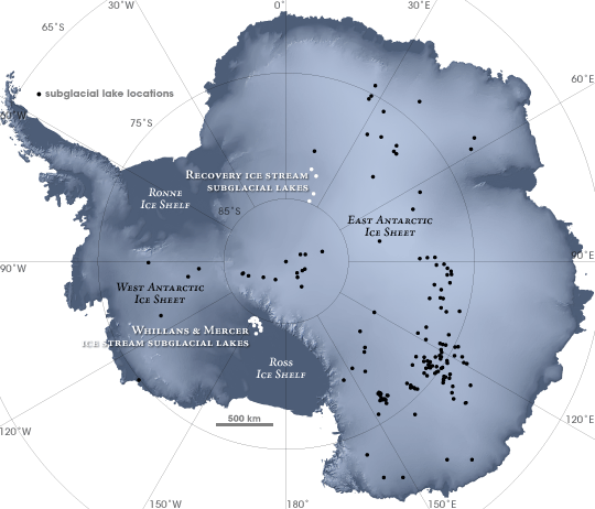 As of spring of 2007, glaciologists had discovered more than 140 subglacial lakes lurking under Antarctica’s ice. Their locations are marked with dots on this map. White dots represent lakes discovered by Helen Fricker and colleagues.